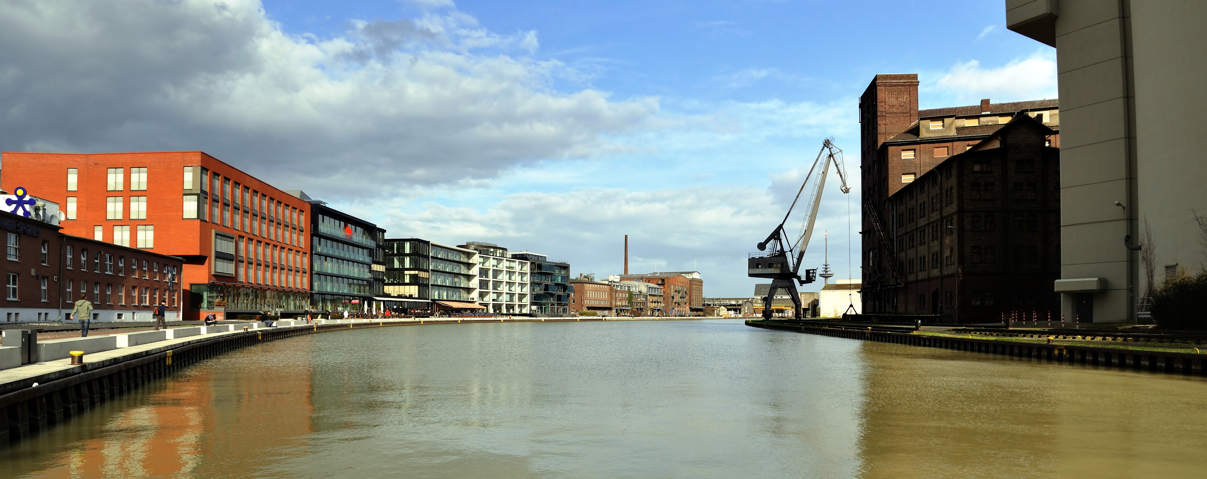 Münster: harbour